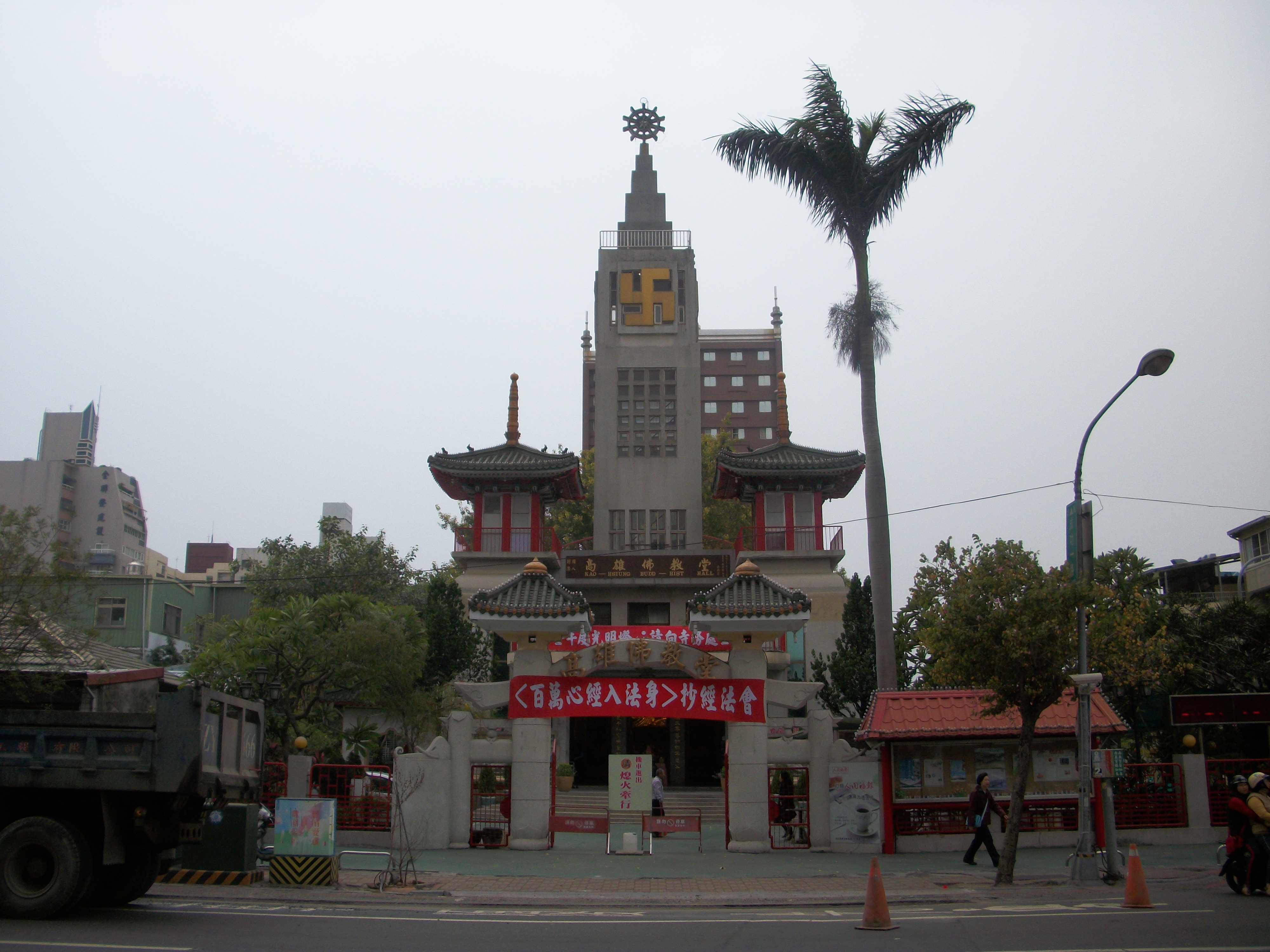 Fo Guang Shan Kaohsiung Buddhist Hall front view.